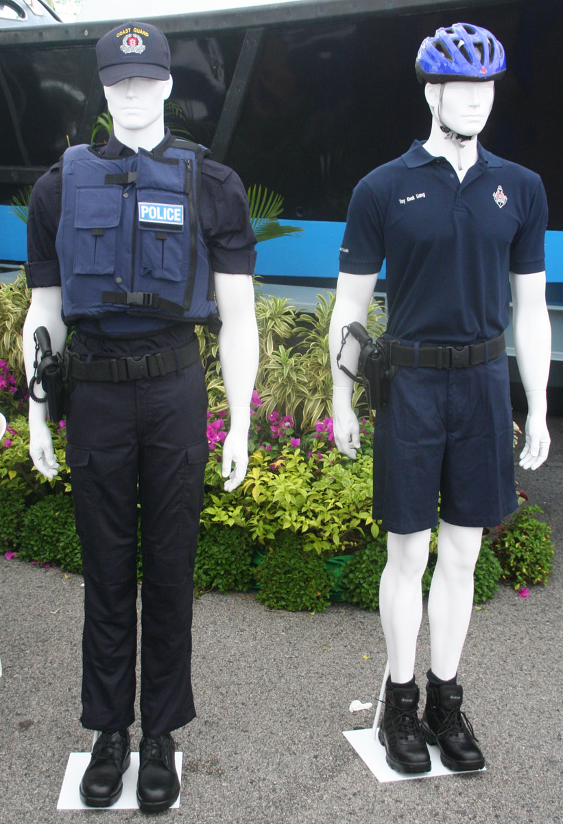 Description: New uniforms of the Police Coast Guard on display at the Police Carnival 2006. Source: Self-made Location: Old Police Academy, Singapore Date: 10/06/2006 16:49 Photographer/Painter: Huaiwei